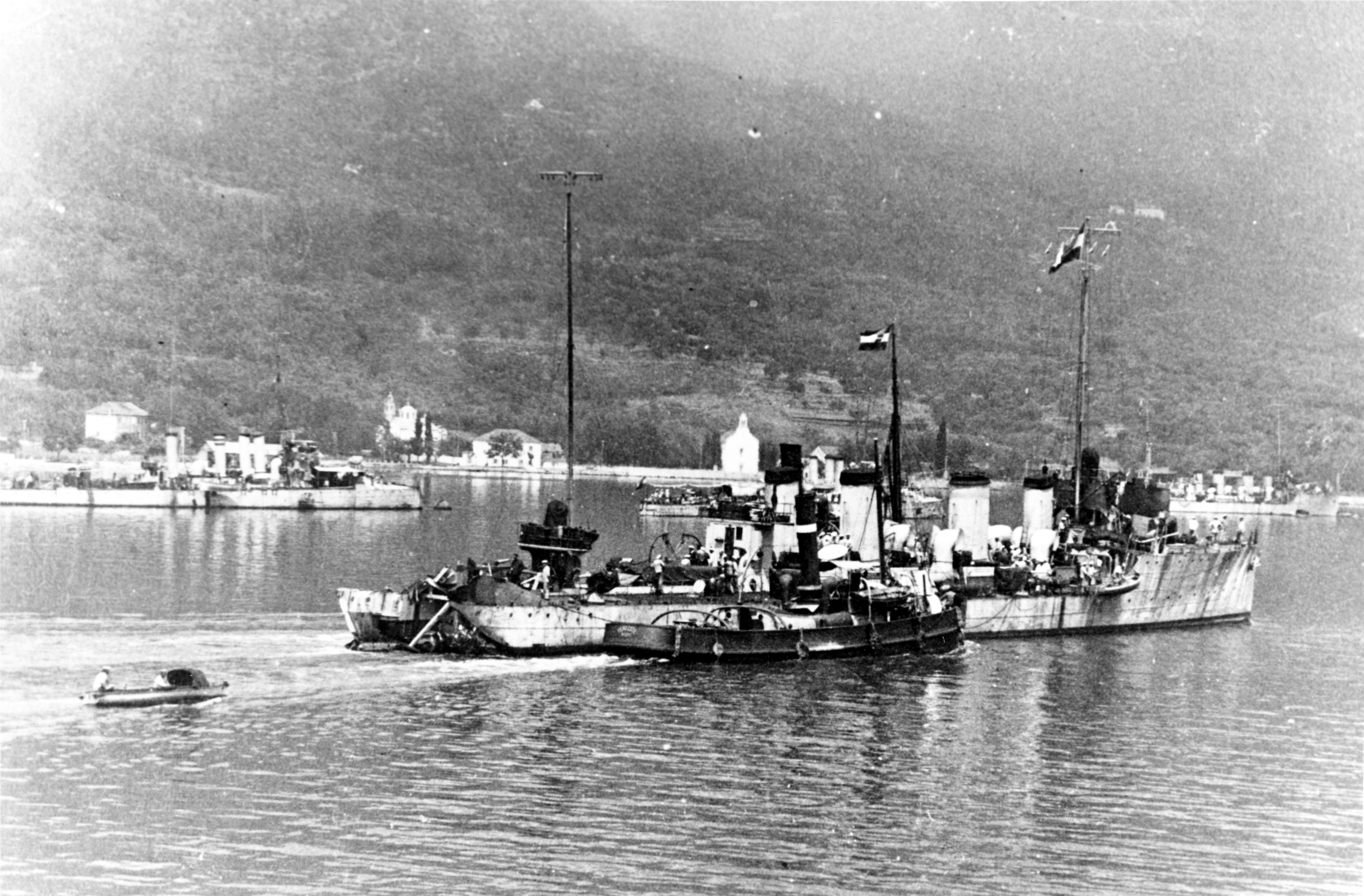 Csepel being towed into Cattaro Harbor after having her stern blown off by a torpedo